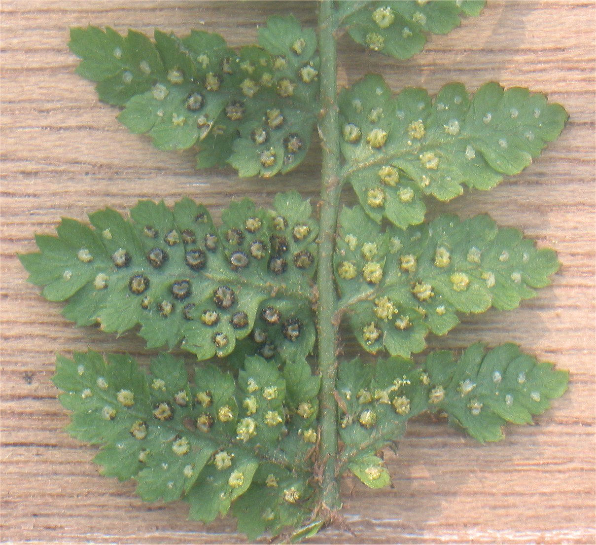 Dryopteris dilatata sori